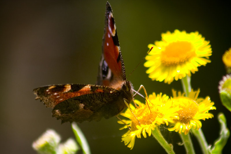 Peacock Butterfly showing extended proboscis